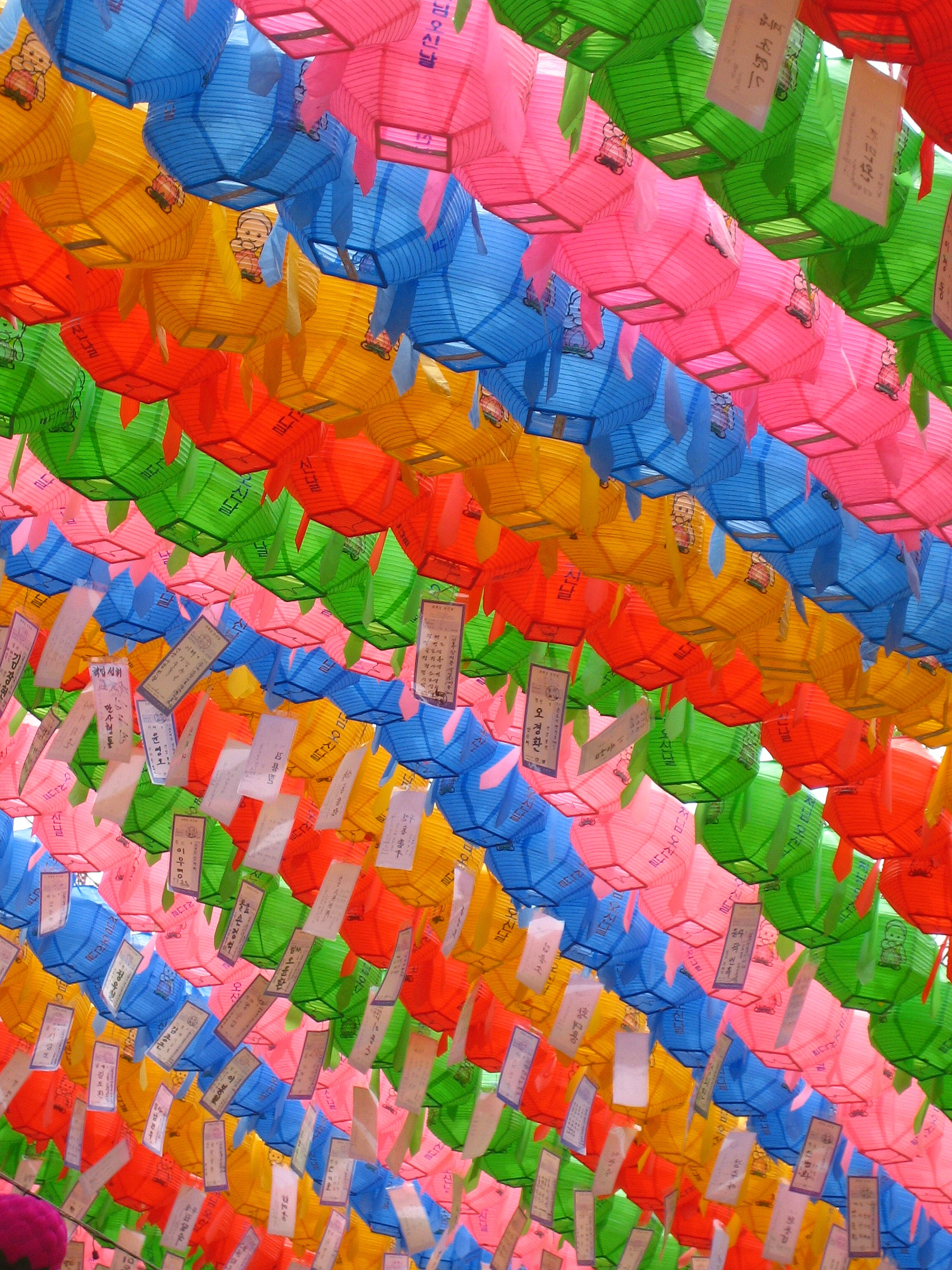 Coloured lanterns hanging in a temple in Seoul, South Korea